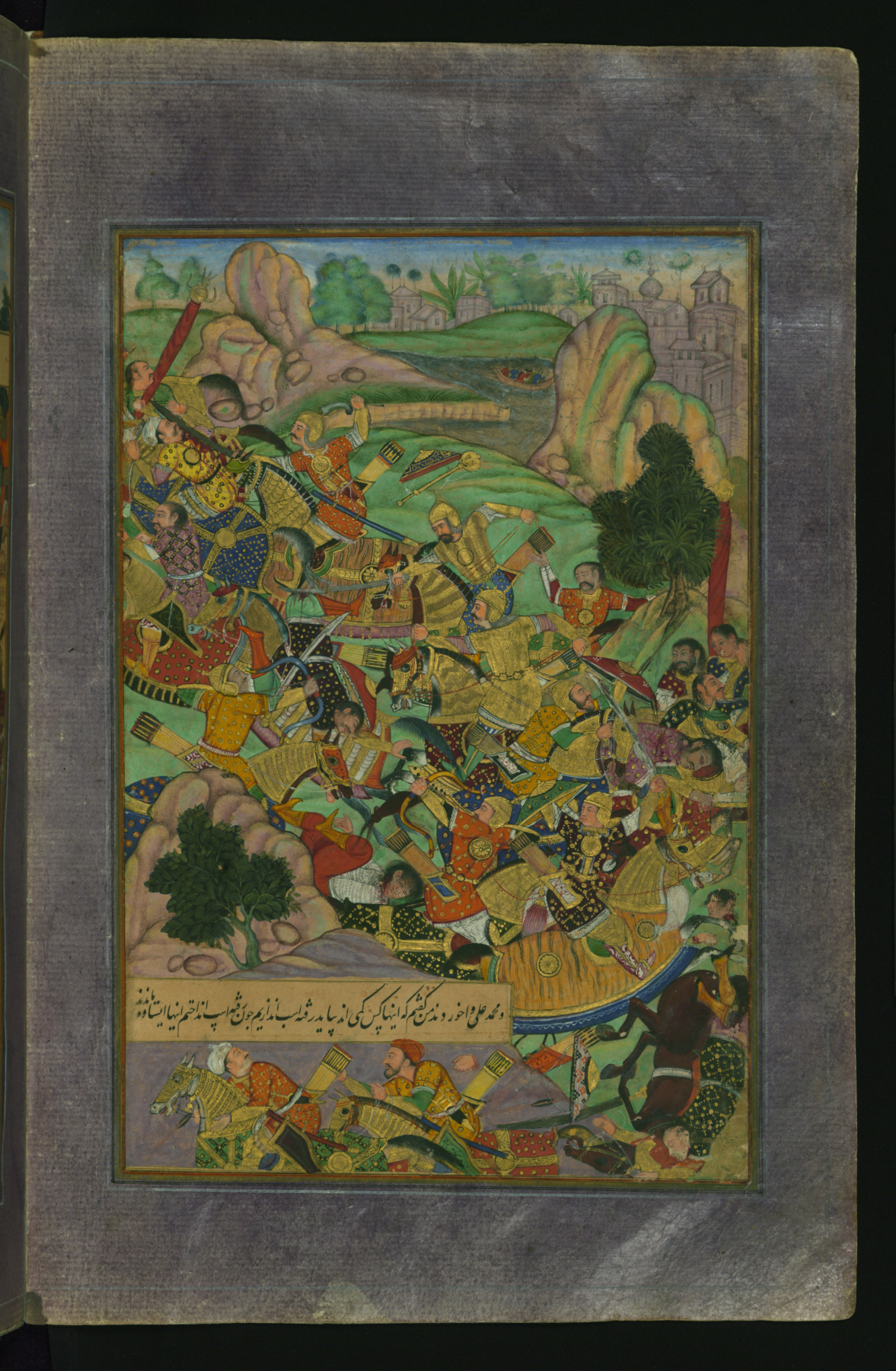 Illustrations from the Manuscript of Baburnama (Memoirs of Babur) - Late 16th Century Bāburnāma is the memoirs of Ẓahīr ud-Dīn Muḥammad Bābur (1483-1530), founder of the Mughal Empire and a great-great-great-grandson of Timur. It is an autobiographical work, originally written in the Chagatai language, known to Babur as "Turki" (meaning Turkic), the spoken language of the Andijan-Timurids. Because of Babur's cultural origin, his prose is highly Persianized in its sentence structure, morphology, and vocabulary,and also contains many phrases and smaller poems in Persian. During Emperor Akbar's reign, the work was completely translated to Persian by a Mughal courtier, Abdul Rahīm, in AH (Hijri) 998 (1589-90). These Paintings, being a fragment of a dispersed copy, was executed most probably in the late 10th AH /16th CE century. It contains 30 mostly full-page miniatures in fine Mughal style by at least two different artists. Another major fragment of this work (57 folios) is in the State Museum of Eastern Cultures, Moscow.